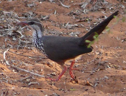 Male subdesert Mesite Monias benschi, Reniala Botanical Gardens nr Ifaty, SW Madagascar. Cropped from File:Subdesert Mesite.jpg